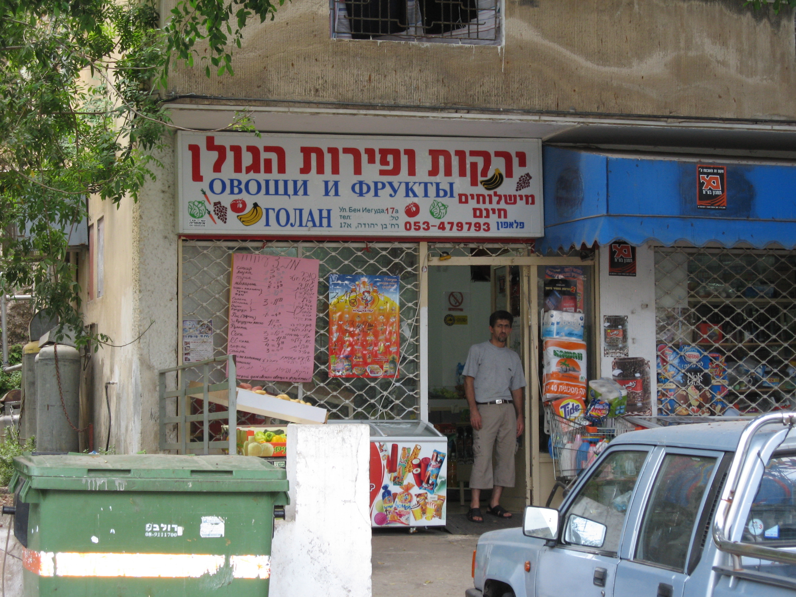 A shop with Russian and Hebrew signs on it in Haifa, Israel